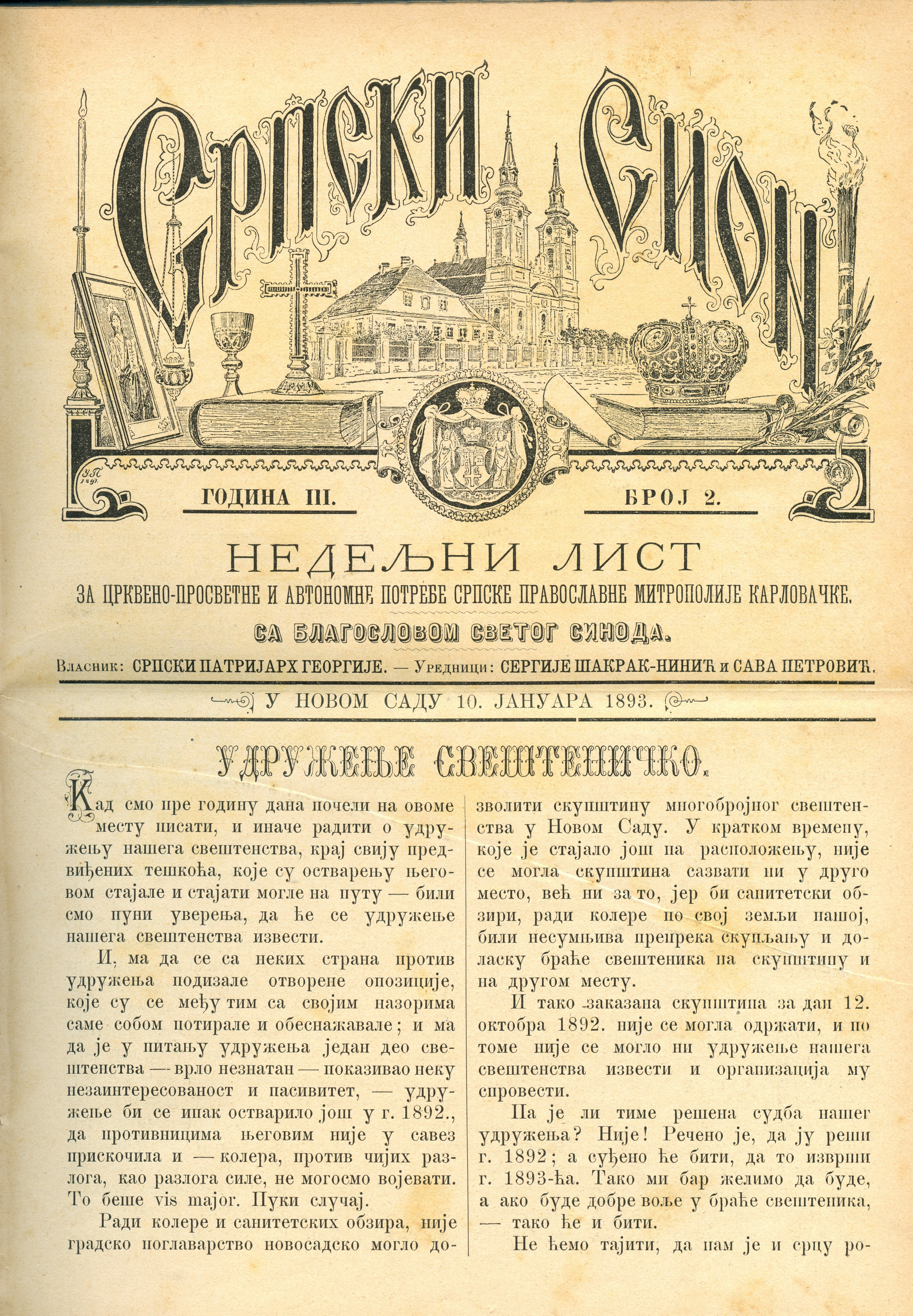 Front page of newspaper Srpski Sion from 10 January 1893 Srpski (latinica): Naslovna strana novina Srpski Sion od 10. januara 1893.